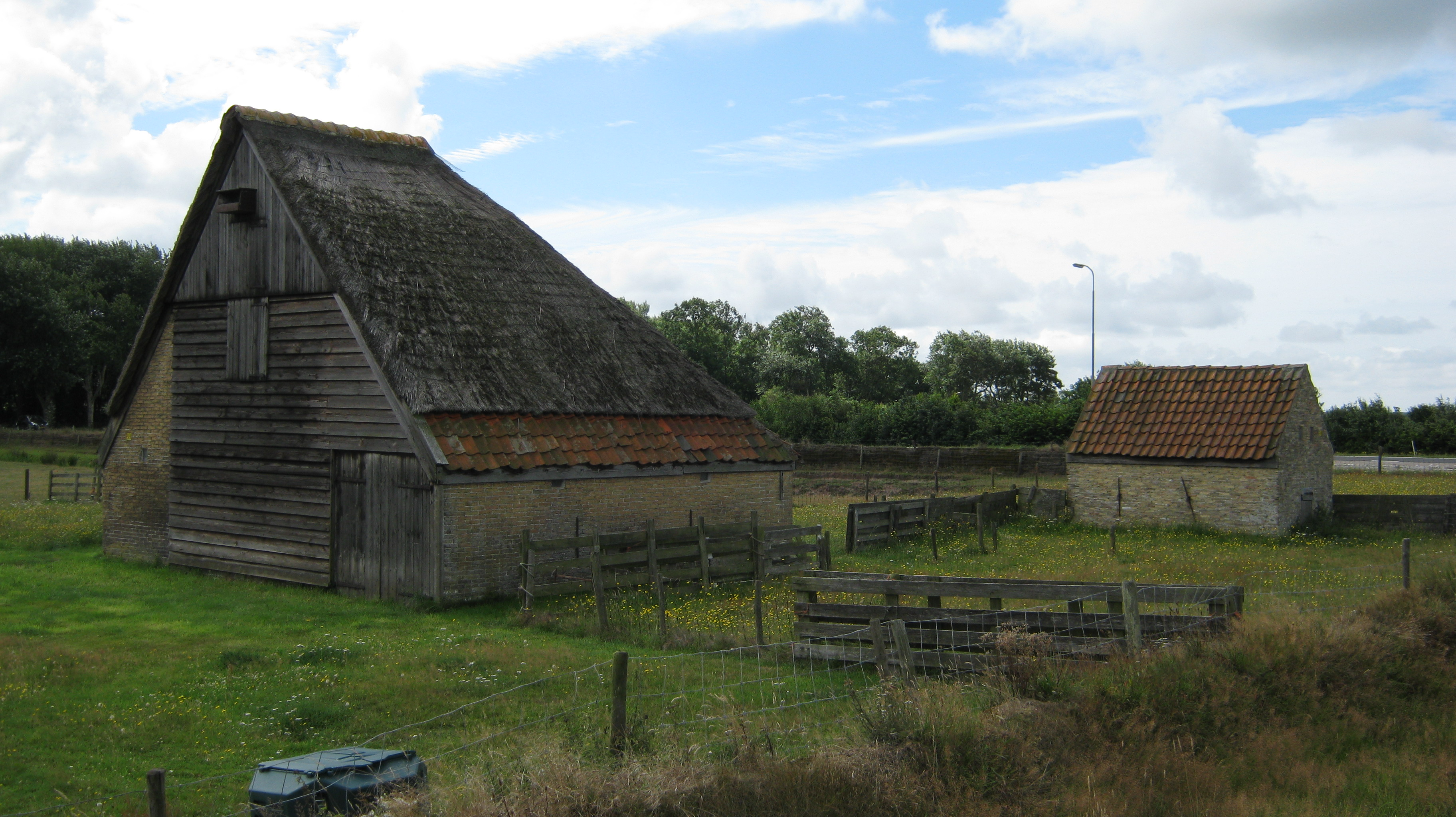 Sheep barn